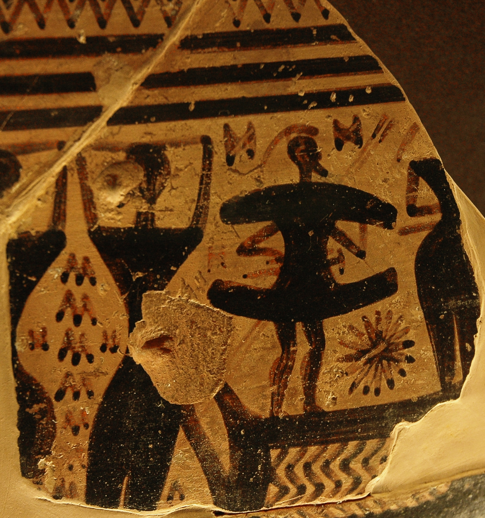 Funerary procession and mourners. Fragment from a krater, Late Geometric, ca. 750 BC–725 BC. From the Dipylon Cemetary at Athens.